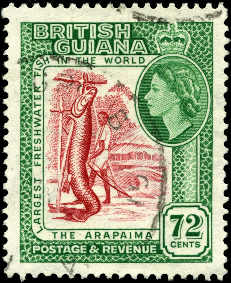 British Guiana 72c stamp of 1954